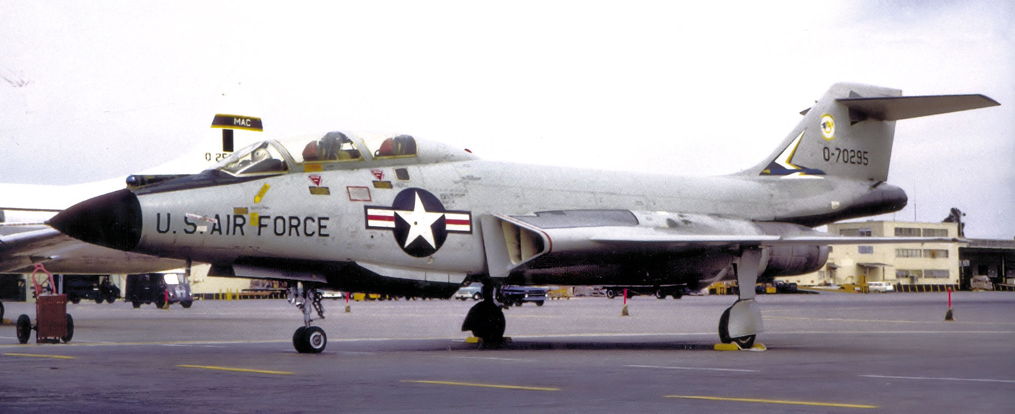 322d Fighter-Interceptor Squadron McDonnell F-101B-85-MC Voodoo 57-295 Kingsley Field, Oregon, August 1968